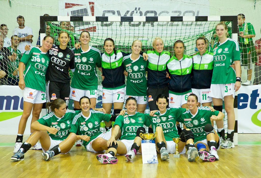 2011 Szabella European Super Cup winning team of Győri Audi ETO KC. Standing line (L-R): Ágnes Hornyák, Katalin Pálinger, Eduarda Amorim, Fruzsina Palkó, Heidi Løke, Katrine Lunde Haraldsen, Orsolya Vérten, Nadine Schatzl and Szimonetta Planéta. Sitting (L-R): Anikó Kovacsics, Andrea Lekić, Jovanka Radičević, Anita Görbicz and Adrienn Orbán.